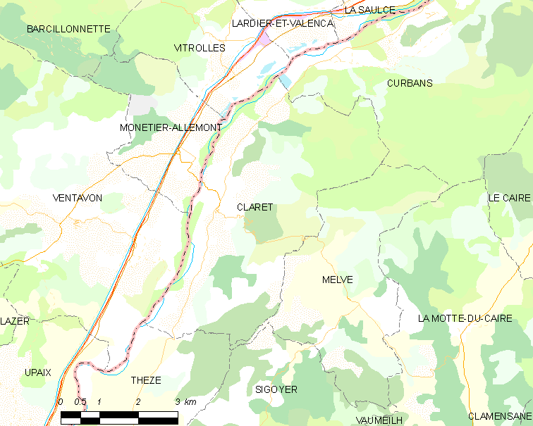 Map commune FR insee code 04058.png Légende